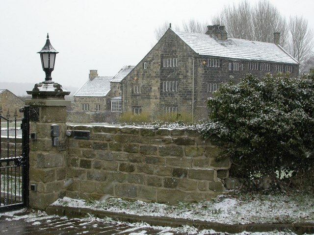 The Nunnery. Now a private residence, a Cluniac Nunnery was founded on this site in 1150 by Peter de Arthington.